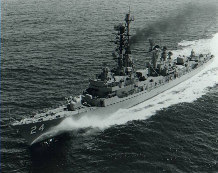 Aerial photograph of the U.S. Navy guided missile destroyer USS Waddell (DDG-24) underway at high speed, circa in 1965. Note that she is equipped with the AN/SPS-39 radar, which was replaced by AN/SPS-52, circa in 1966.